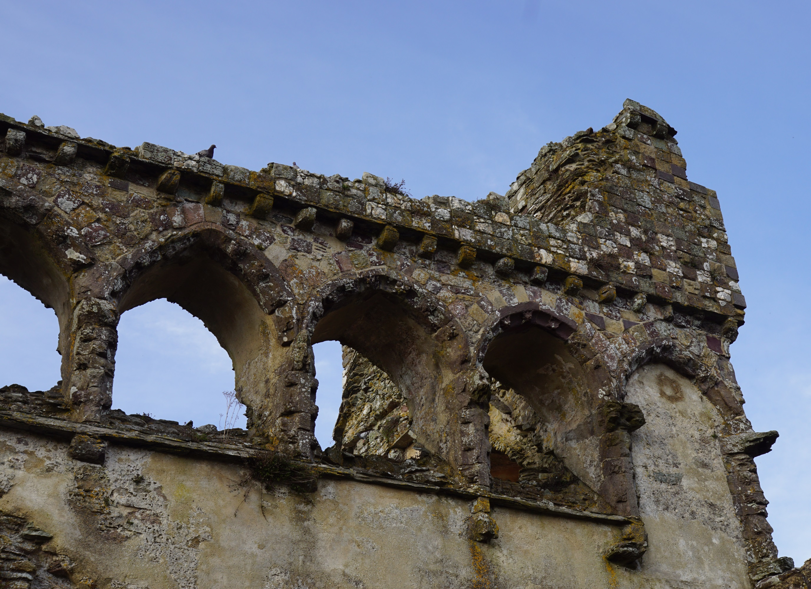 St. Davids Bishop's Palace, St. Davids, Wales, United Kingdom. Detail of arcaded parapet.